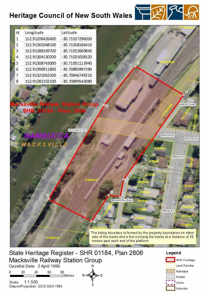 Macksville railway station: SHR Plan No 2805